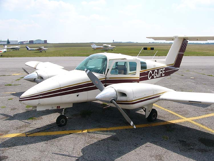 1979 model Beechcraft Duchess (C-GJFE)